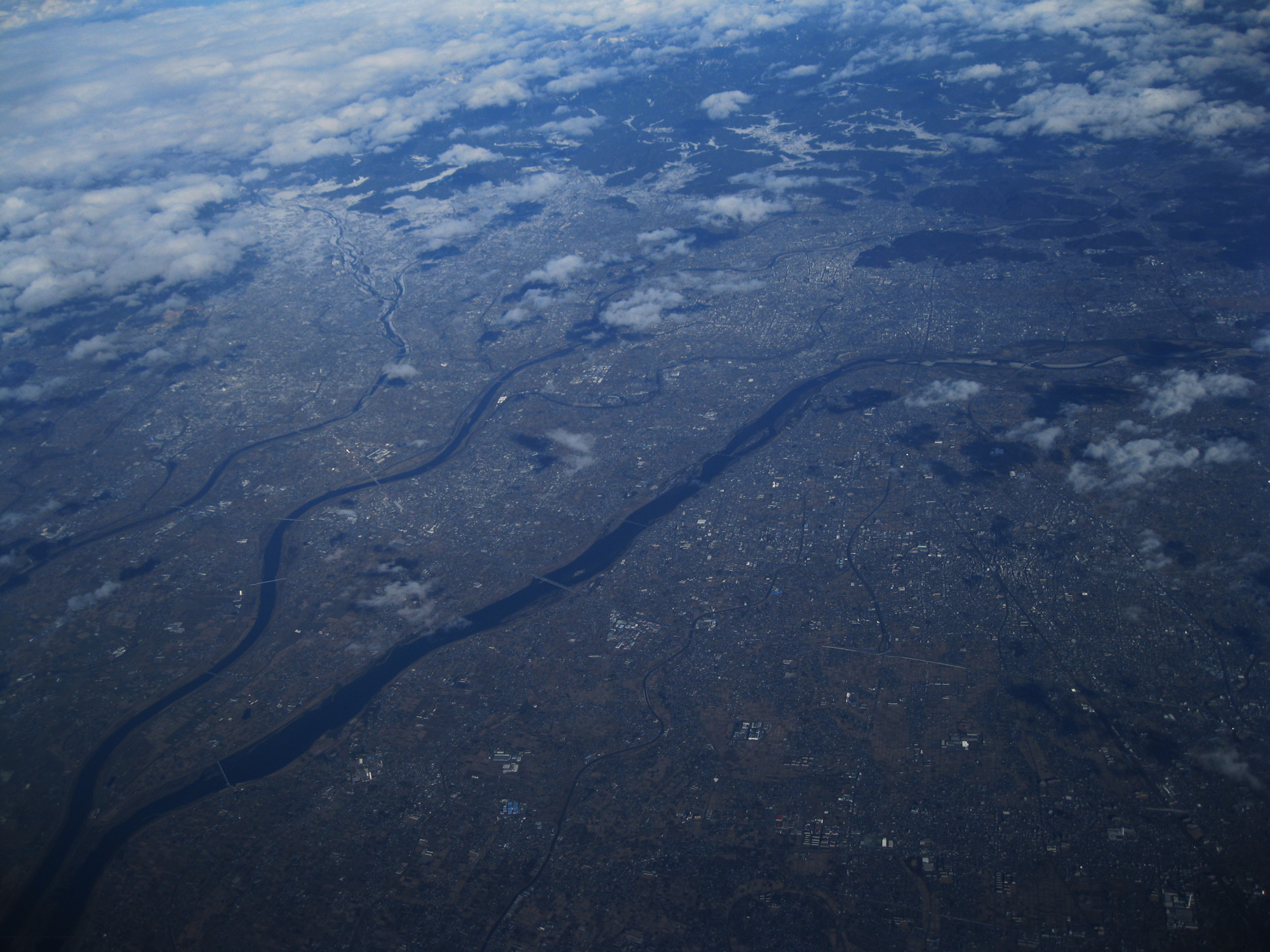 Nobi Plain and Kiso River (right).